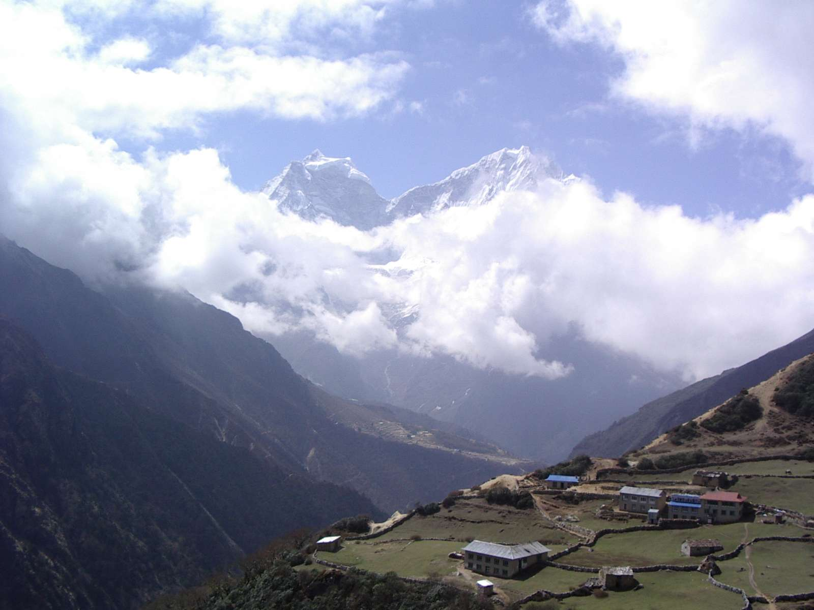 Dole, Nepal. View to southeast. Background: Kangtega and Thamserku 6623m and 6783m